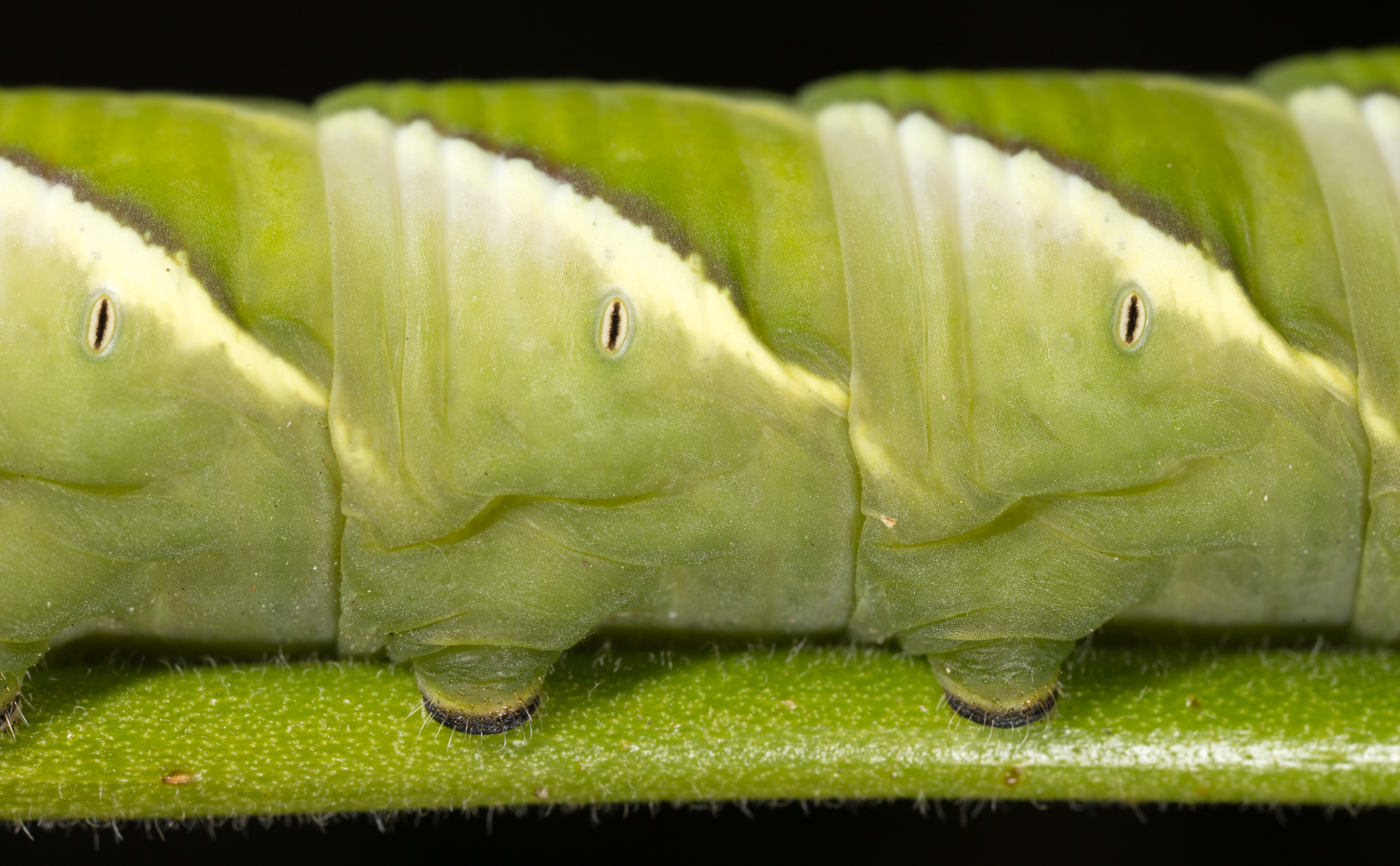 Privet hawk moth caterpillar